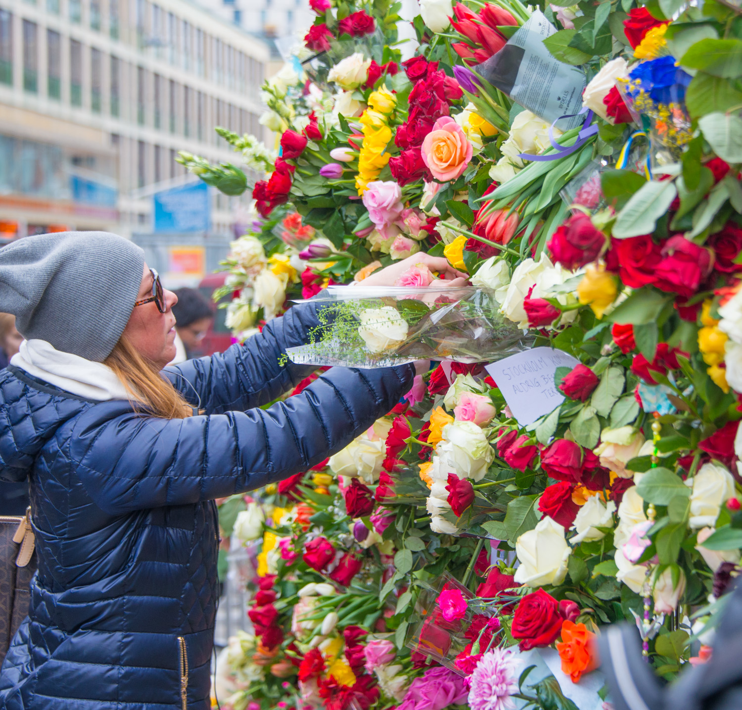 The day after the terrorist attack in Stockholm in april 2017.